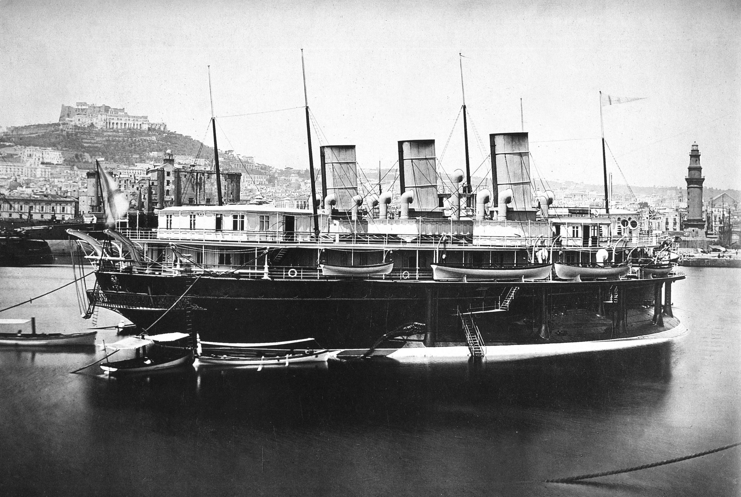 Imperial Russian imperator yacht Livadiia.